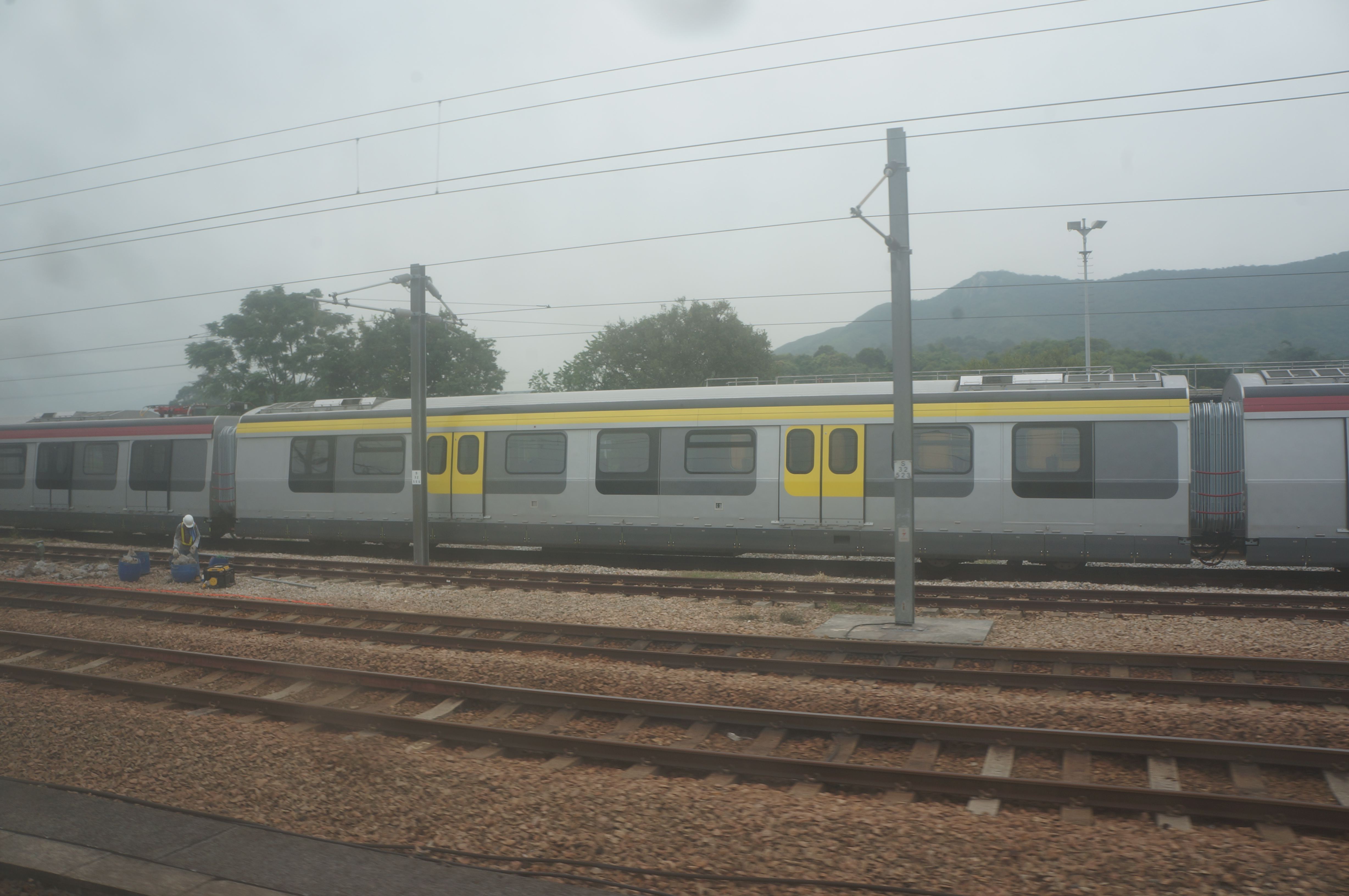 201609 Rolling stocks at Lo Wu Marshaling Yard